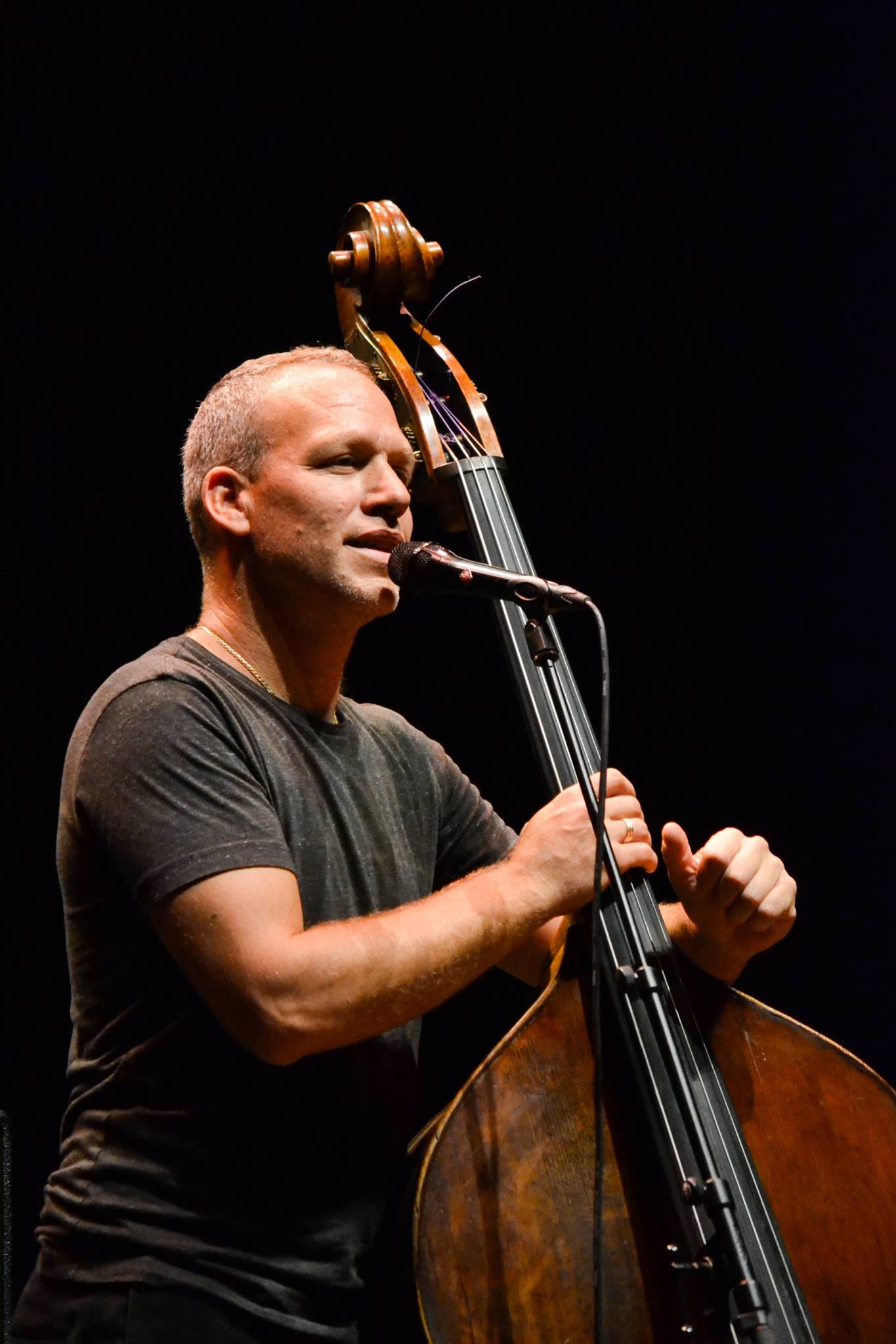 Avishai Cohen in Sweden, 2015